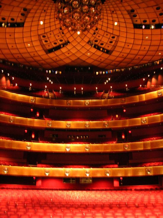 Photograph of the interior of the New York State Theater at Lincoln Center, New York, New York, taken on 12 February 2006 by Kevin Burdette and released into the public domain on 13 February 2006 by the photographer.